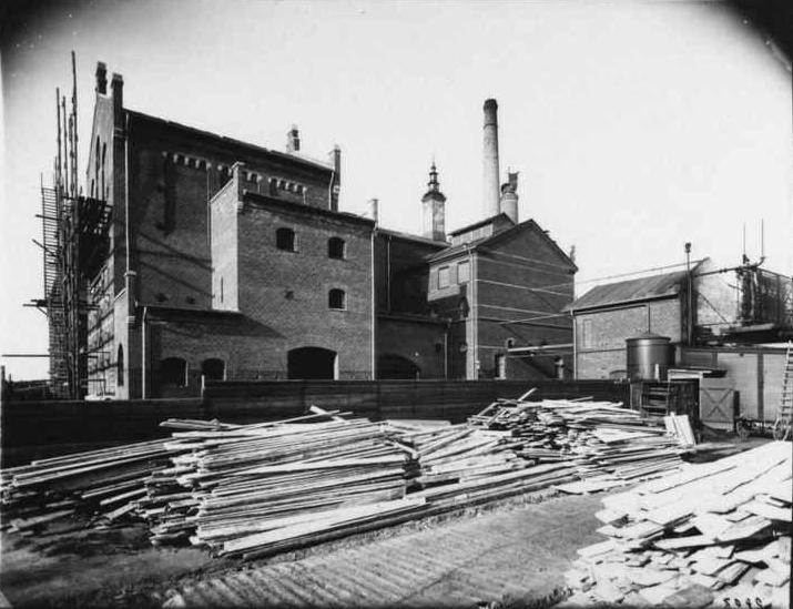 Arbejdernes Bryggeri - Stjernen (The Workers Brewery, The Star), Danish brewery in Frederiksberg, est. 1902, closed 1964